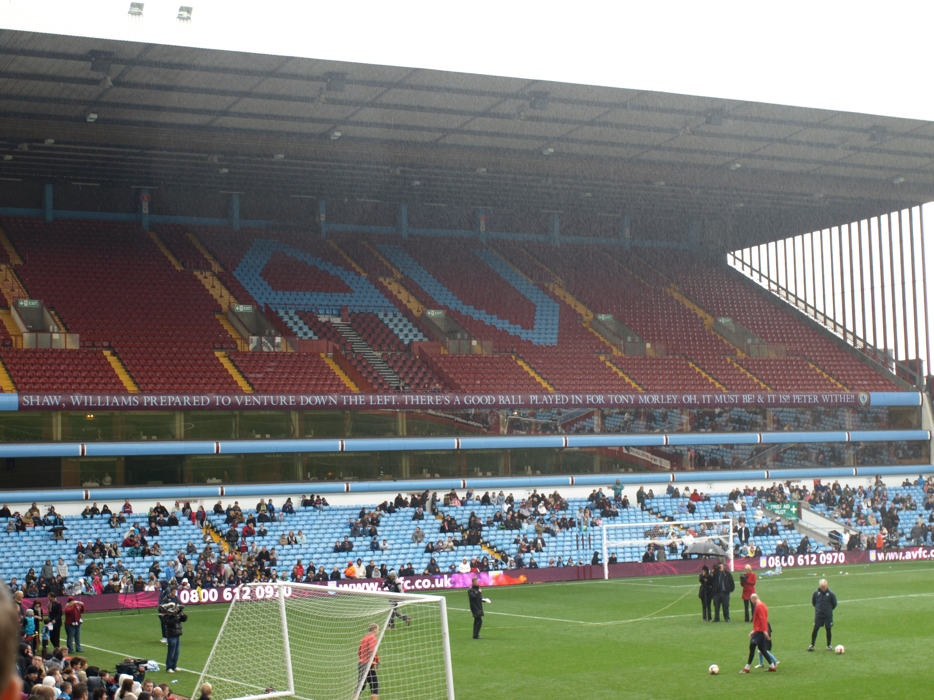 Picture by Gus Stephens